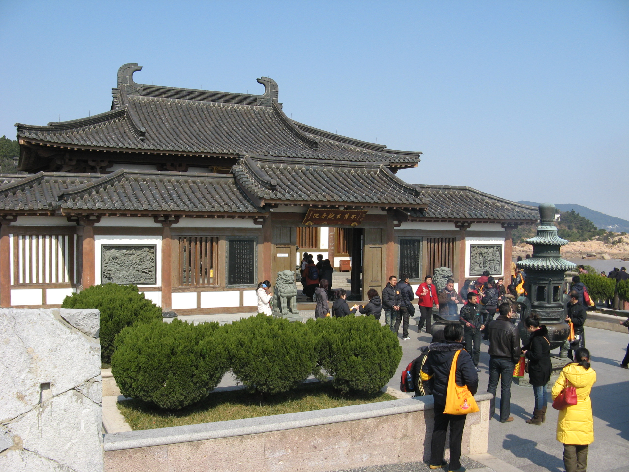 Unwilling-to-Leave Guanyin Temple, established by a Japanese monk, is the first temple on the bodhimanda of Avalokitesvara, Mt. Putuo.